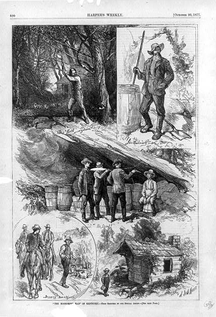 "The Moonshine Man of Kentucky," showing five scenes of the moonshining life, including a man chopping down a tree, a man mixing ingredients, a moonshiner held captive by 3 men, 3 men on horseback begging for breakfast from framer; and a boy holding a jug by the still house. Courtesy of the Prints & Photographs Division, Library of Congress, Washington, D. C.